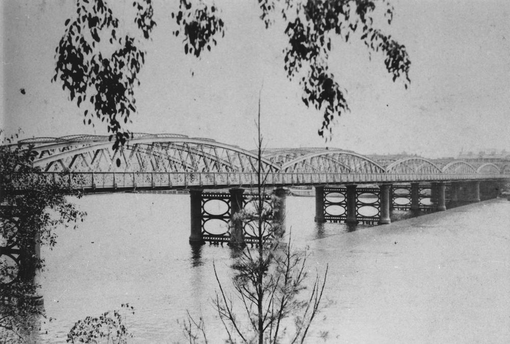 Victoria Bridge in Brisbane This is the second permanent Victoria Bridge.